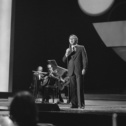 Carlos do Carmo at a rehearsal for the Eurovision Song Contest 1976.